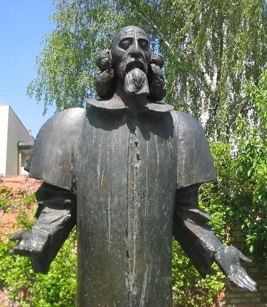 Comenius-Monument in the Comenius-Garten (garden) in Berlin-Neukölln, Germany, created by the sculptor Josef Vajce. It was unveiled in 1992 by Alexander Dubček.